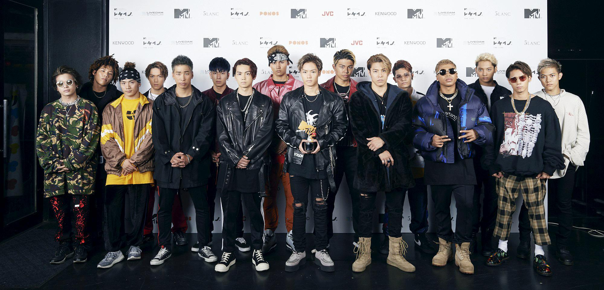 Image of the members of the Japanese music group known as THE RAMPAGE at VMAJ 2017, used to serve as the primary means of visual identification at the top of the article dedicated to the work in question